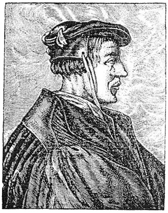 Woodcut of Heinrich Cornelius Agrippa von Nettesheim